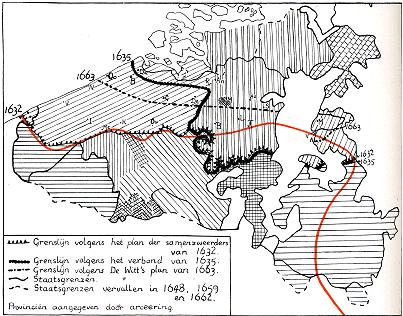 Partionplans Southern Netherlands 17e century